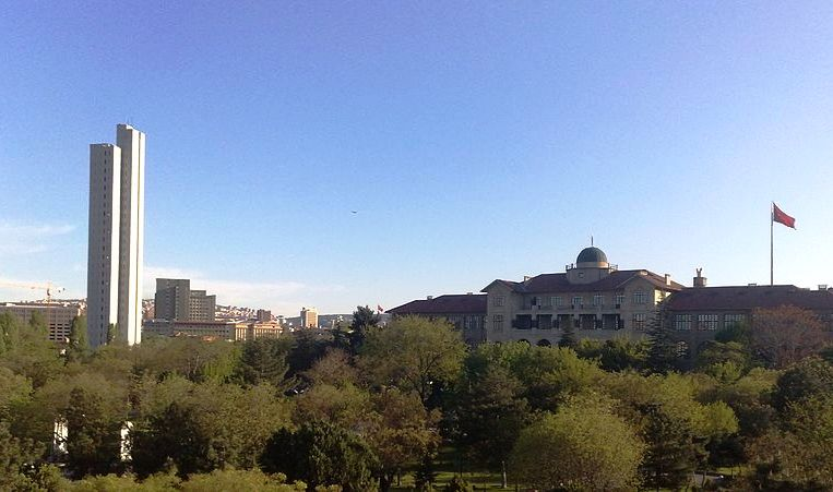 Gazi University, Ankara.